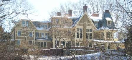 Walter Hunnewell House (1875) by architects Ware & Van Brunt, in the Hunnewell Estates Historic District, Wellesley, MA